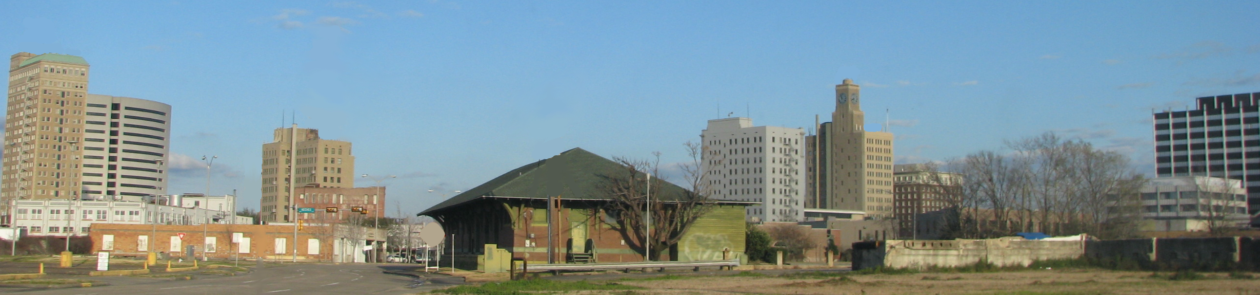 The Beaumont, Texas skyline.